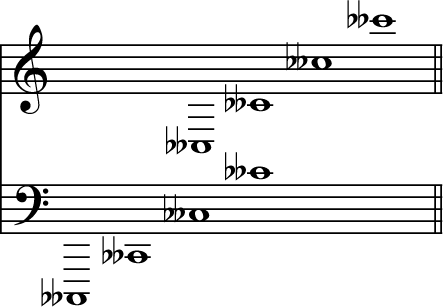 Notes, C Double Flat